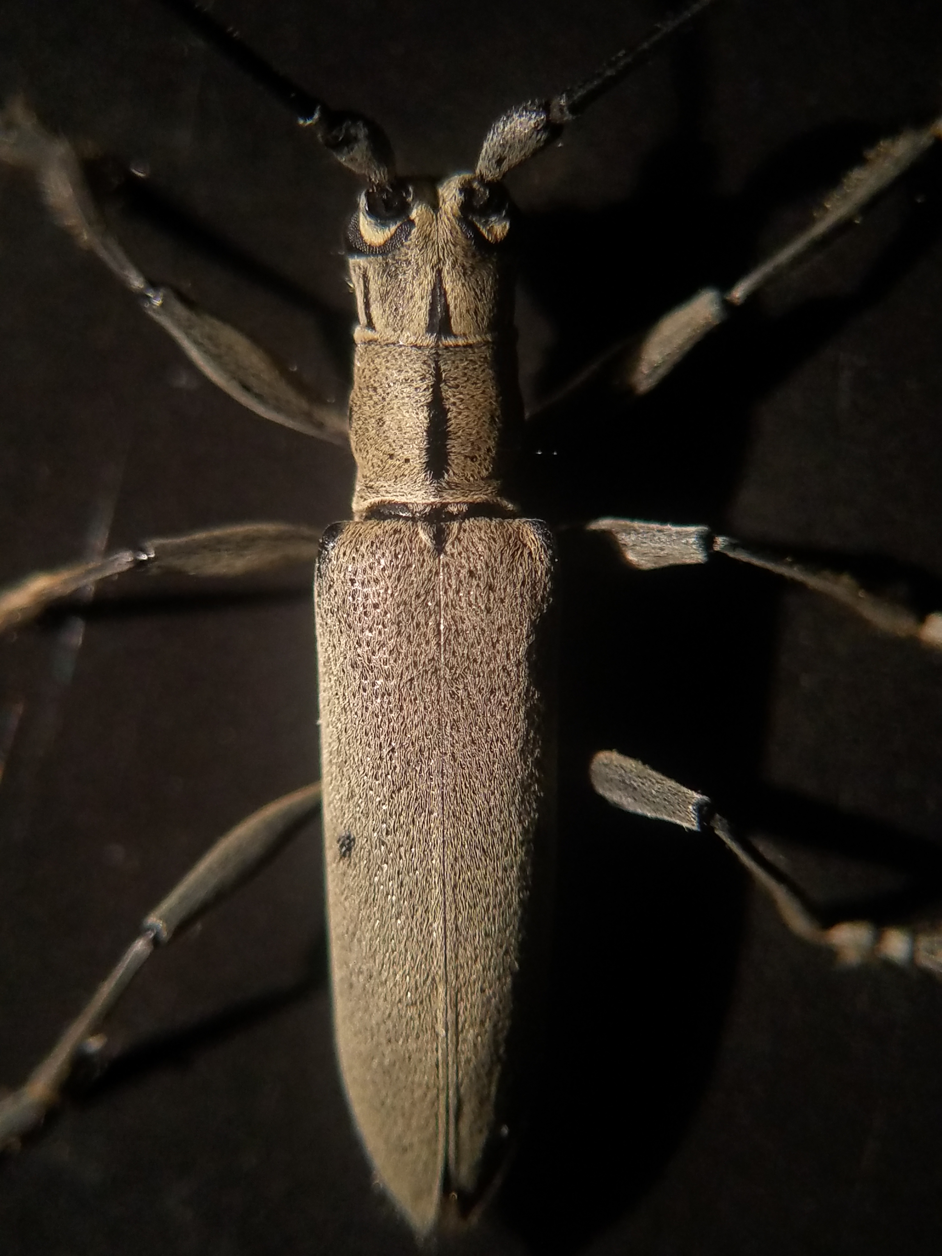 Dorcaschema cinereum